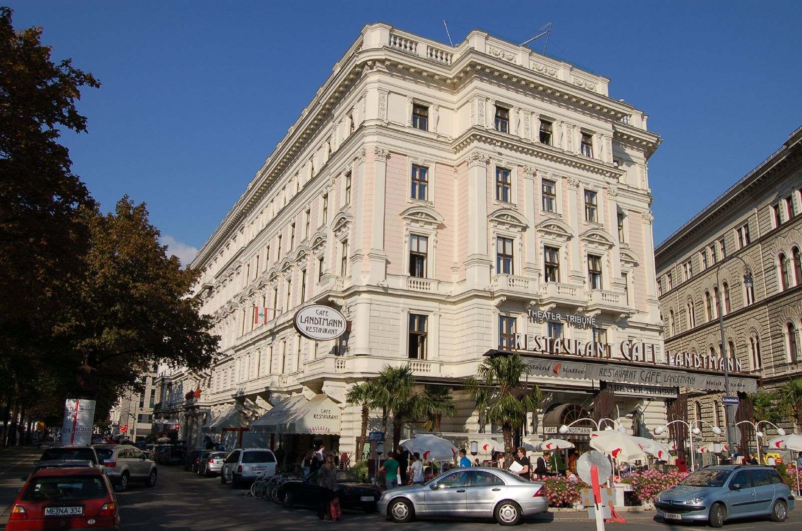 The Cafe Landtmann coffee house, where Sigmund Freud and Orson Welles used to hang out (but not at the same time).